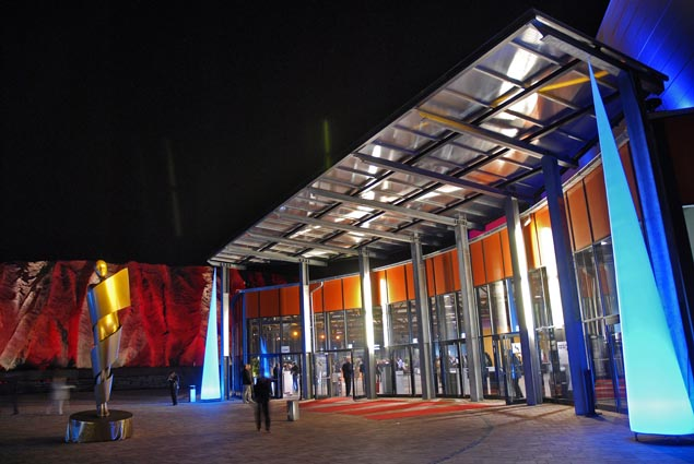 view of foyer of Metropolis Hall at night